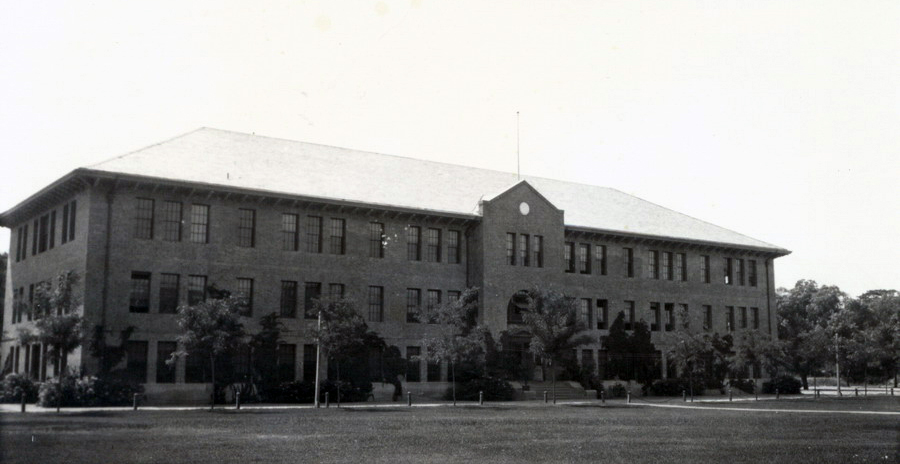 The Science Building(written as "Bvilding") of Tsinghua University, build in 1910s.